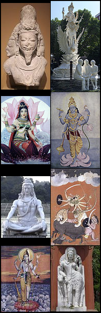 This is a montage created from the following wikimedia common files: WLA haa Brahma Uttar Pradesh.jpg Saraswati Sarasvati Swan Sculpture.jpg A powerful deity in her own right, Shri Lakshmi herself.jpg God_Vishnu.jpg Shiva meditating Rishikesh.jpg Durga Mahisasuramardini.JPG Vishnu and Shiva in a combined form, as "Hari-hara,".jpg Ardhanarishvara at Sampurnanand Sanskrit University.jpg